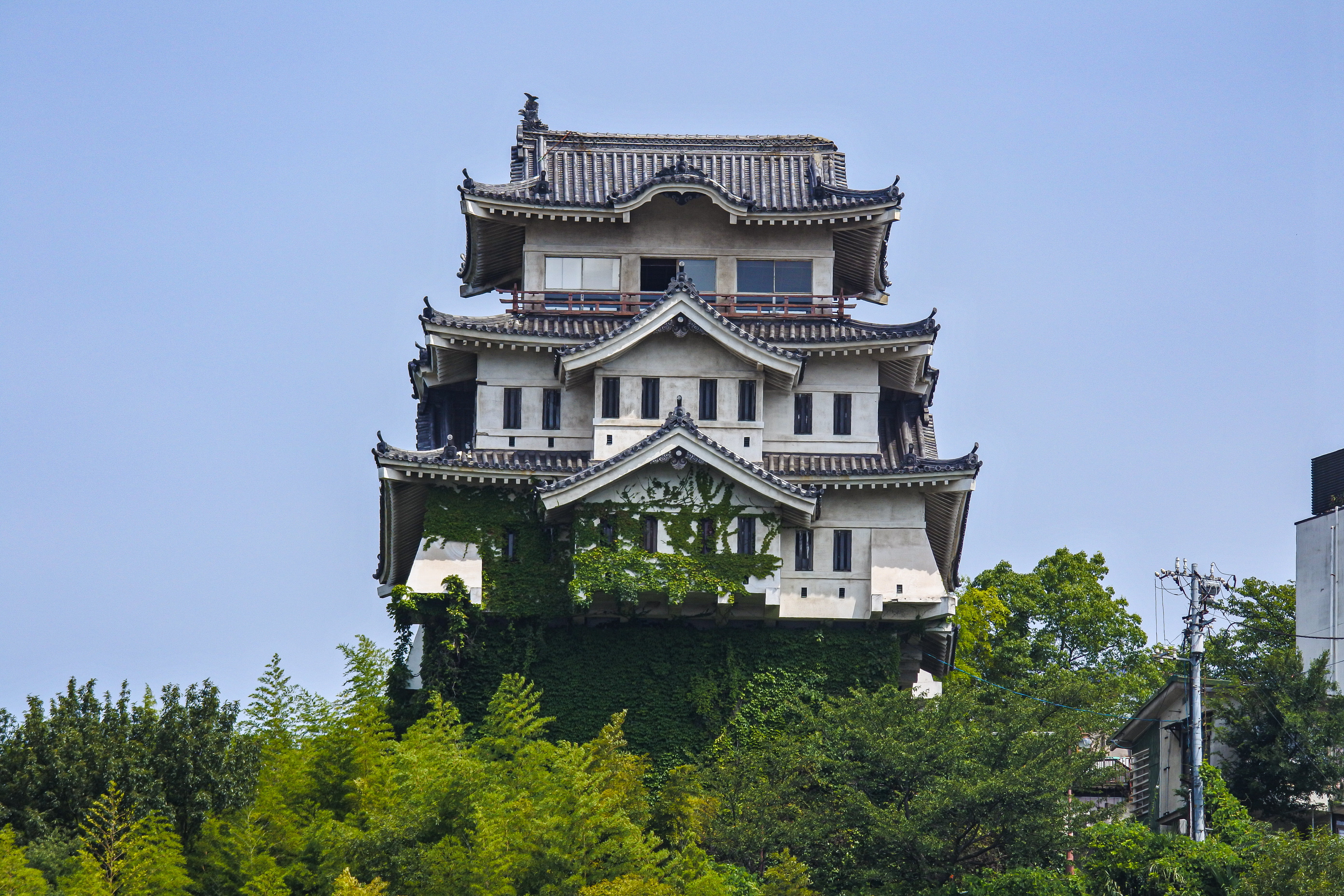 Onomichi Castle in Onomichi city, Hiroshima pref Japan